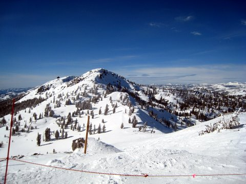 Granite Chief, Squaw Valley Ski Resort, California